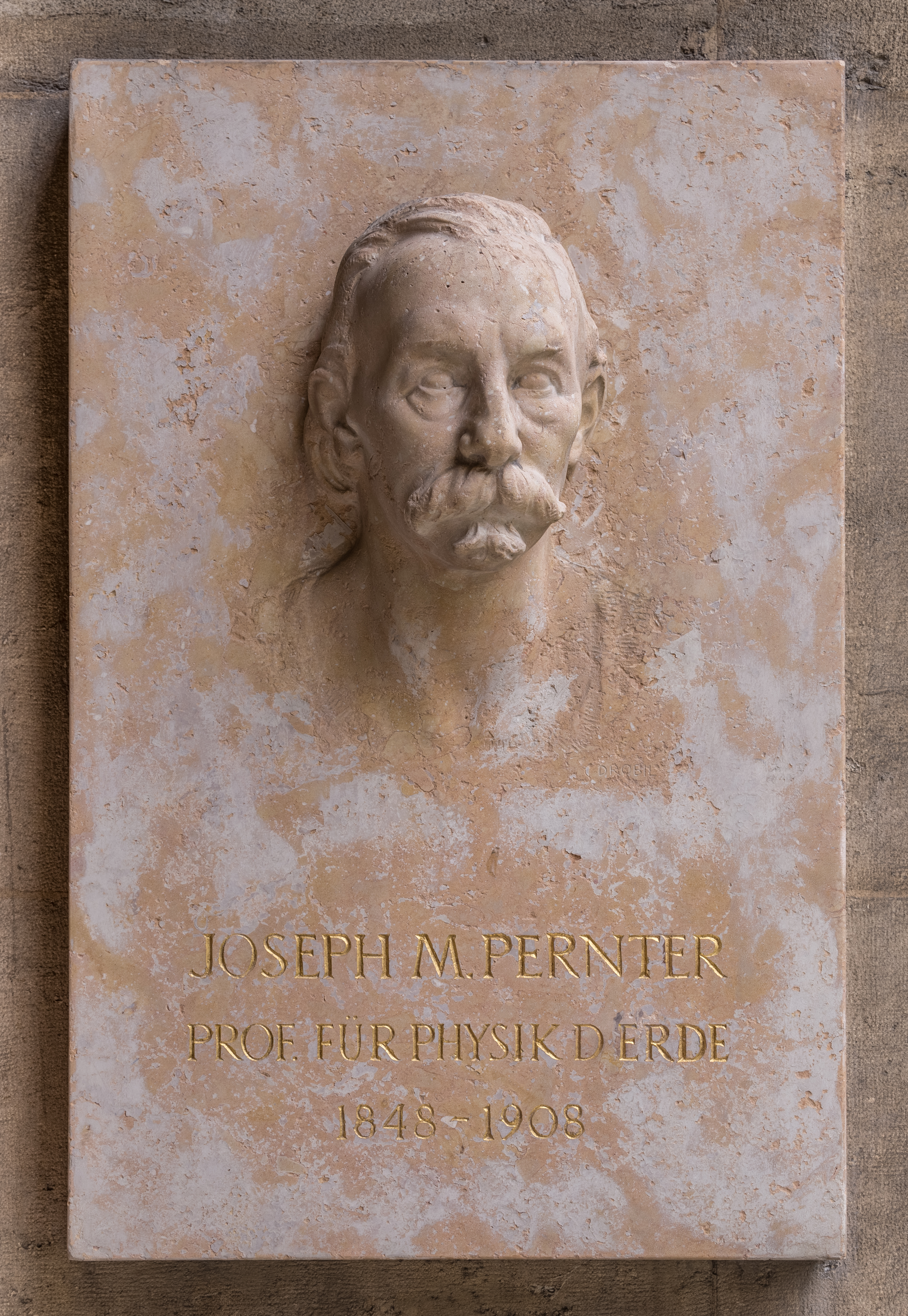 Josef Maria Pernter (1848-1908), relief (marble) in the Arkadenhof of the University of Vienna, (Maisel# 34). Artist: Michael Drobil (1877-1958), unveiled 1935